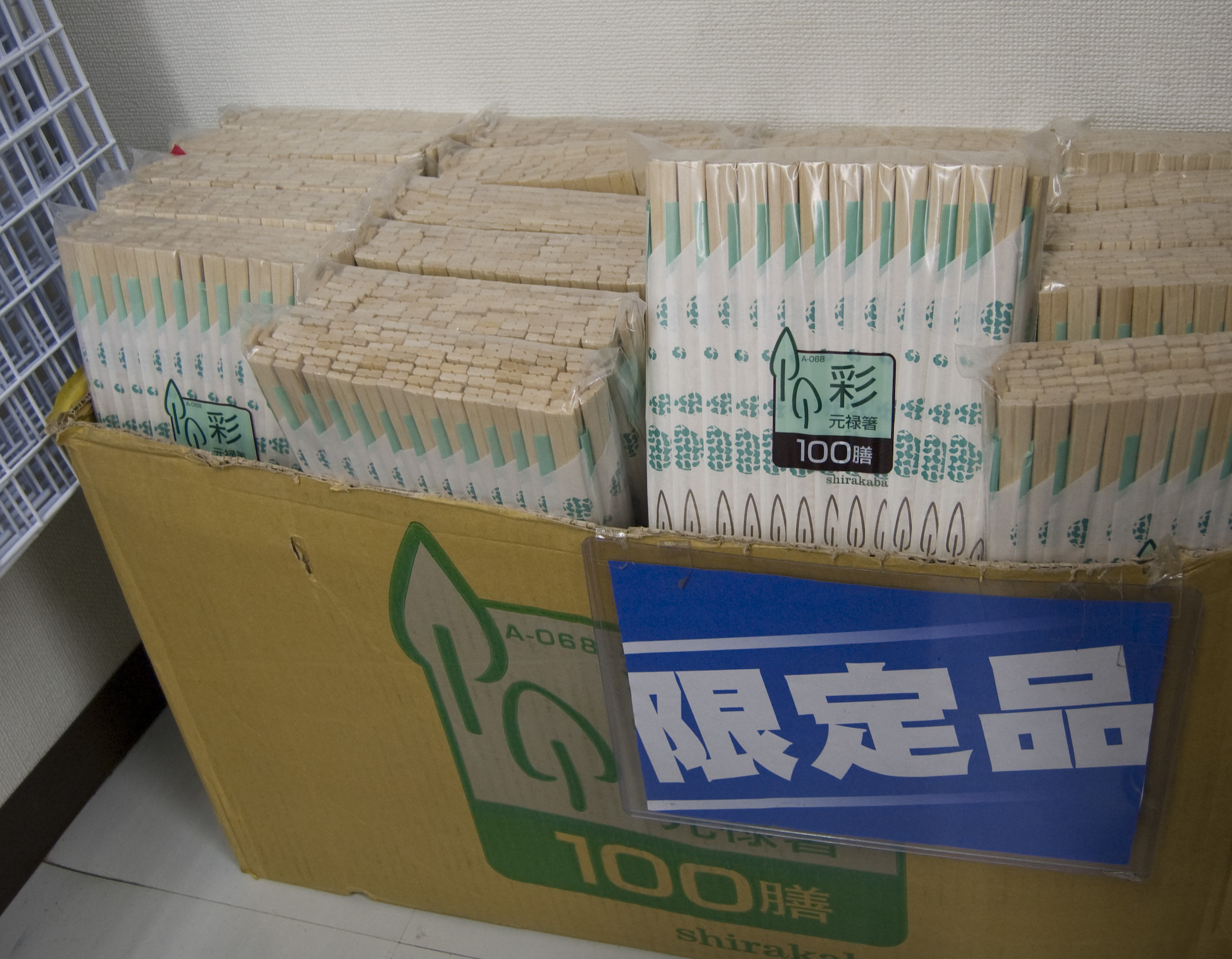 Disposable chopsticks